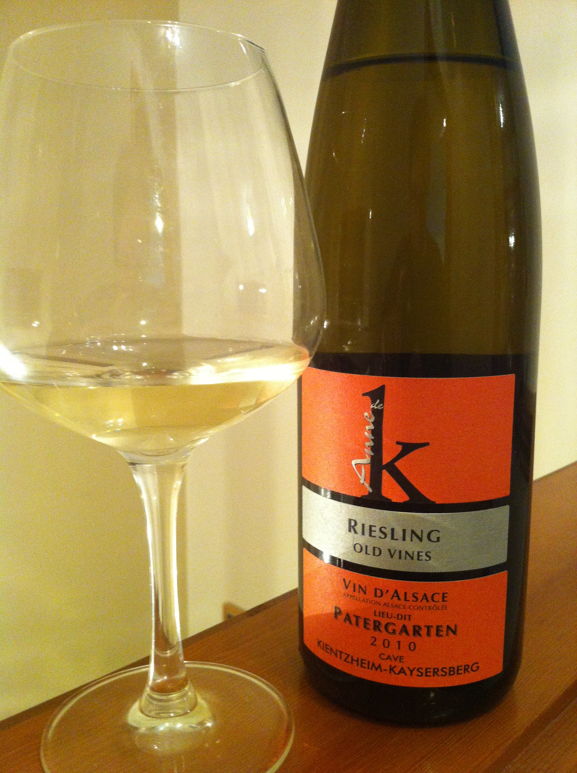 French old vine Riesling from the lieu-dit of Patergarten bottled by the co-op of Kientzheim-Kayserberg in Alsace.